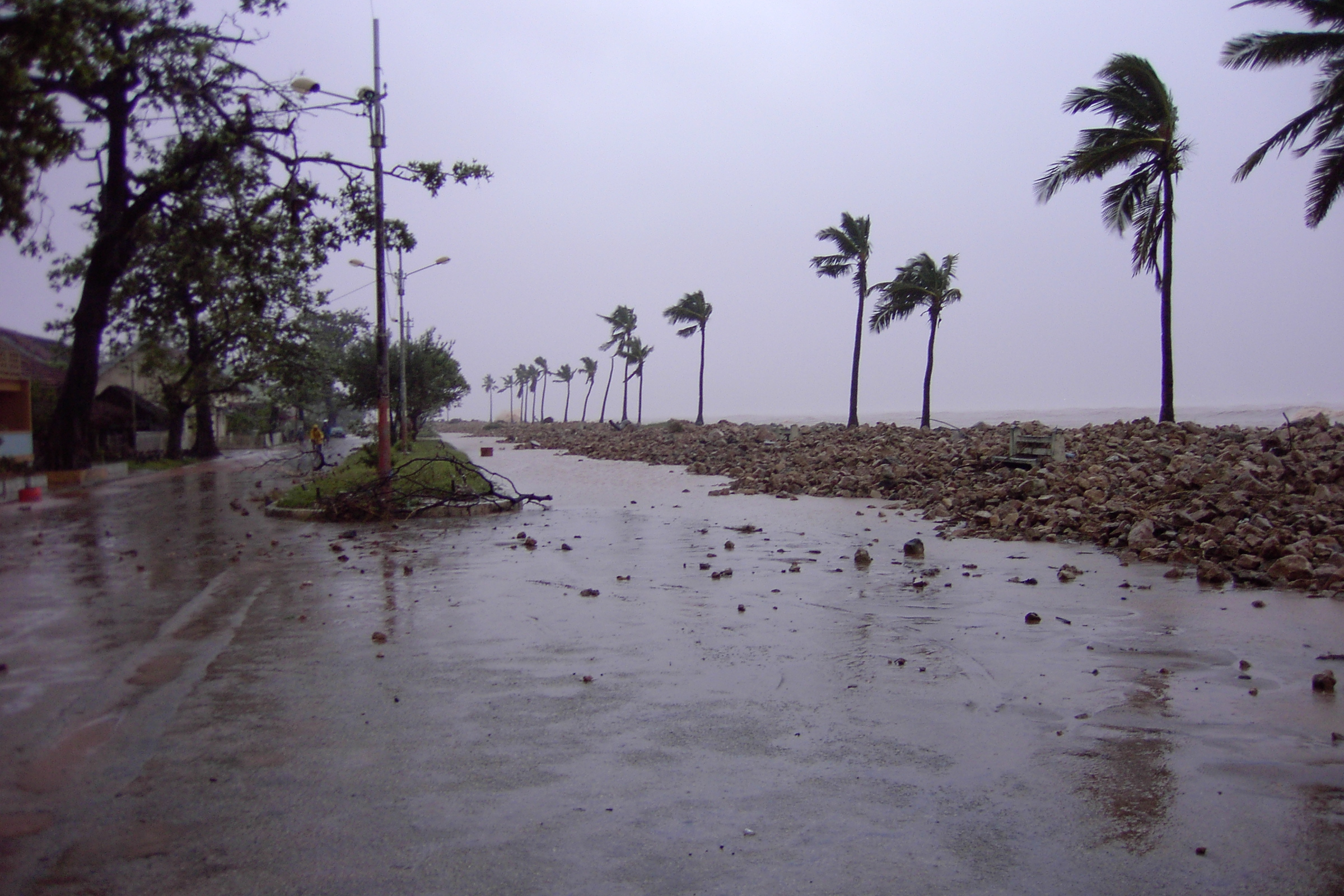 The shore of Mahajanga in the morning after tropical cyclone Gafilo